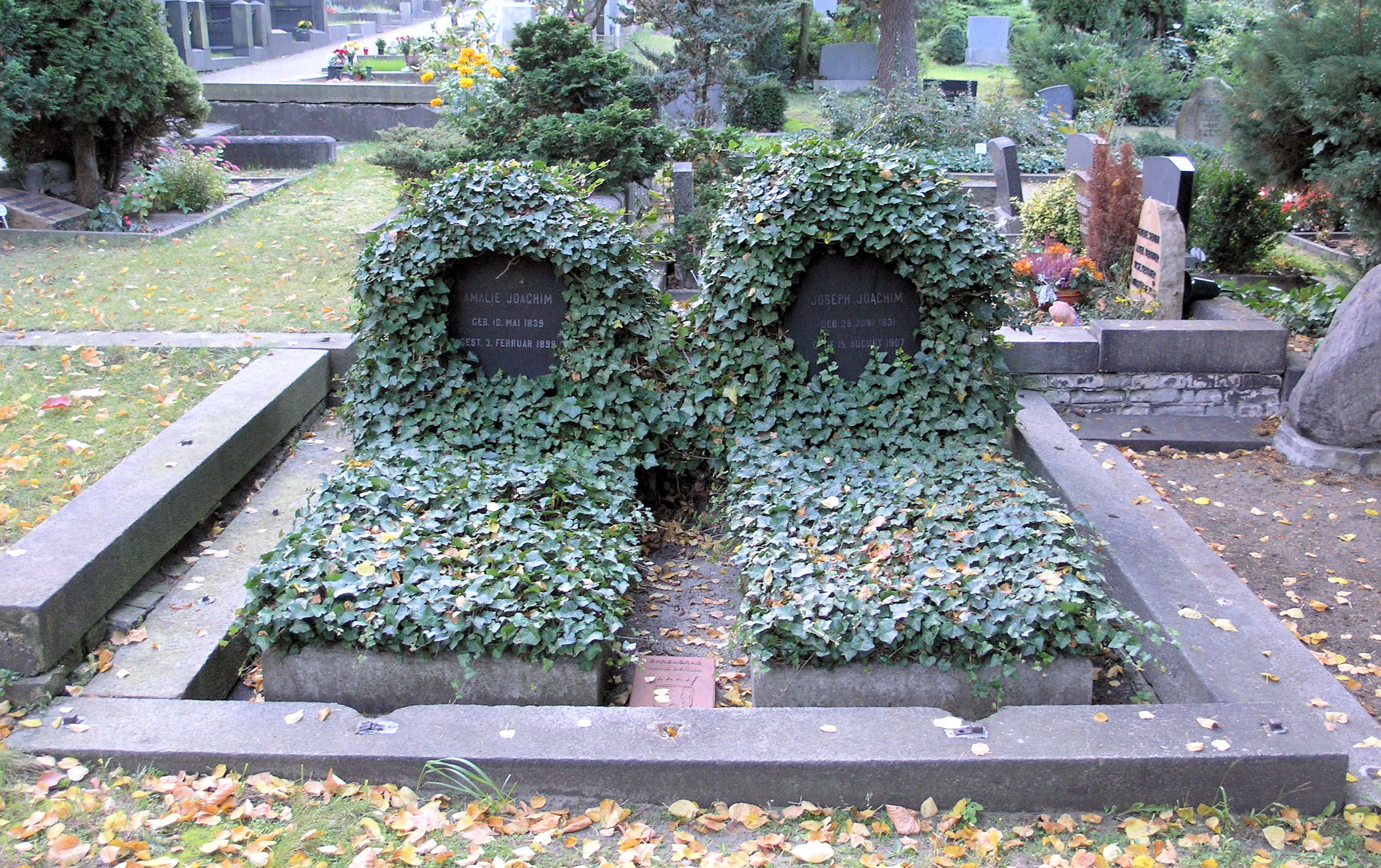 "Ehrengrab" (grave of honor), Joseph Joachim and Amalie Joachim, Fürstenbrunner Weg 69, Berlin-Westend, Germany Koordinate:52°31′32″N 13°16′44″E / 52.52556°N 13.27889°E